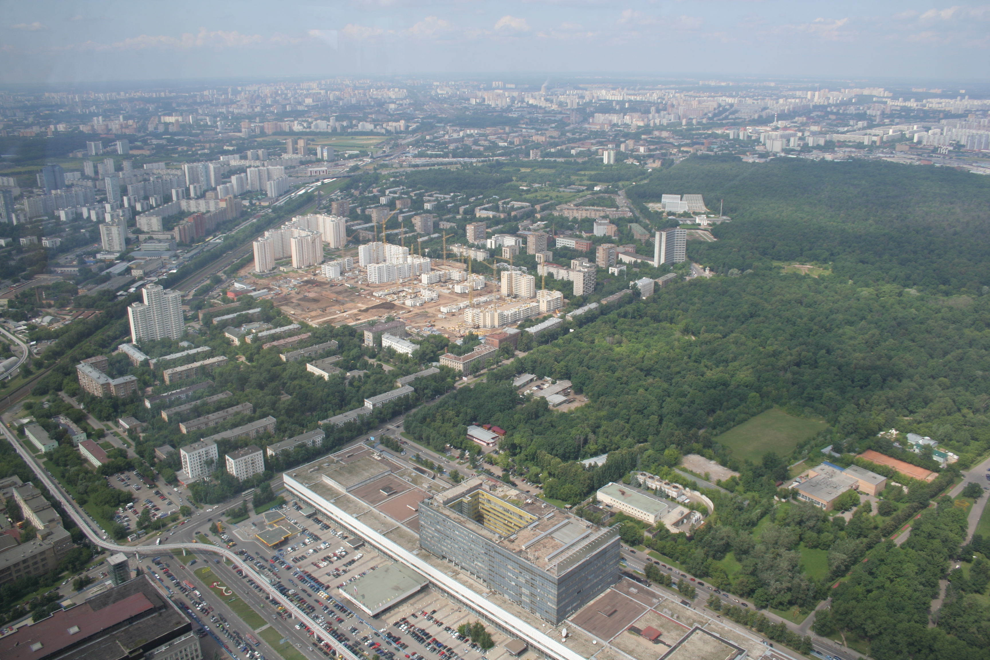 Views from the observation deck of the Ostankino Tower, Moscow